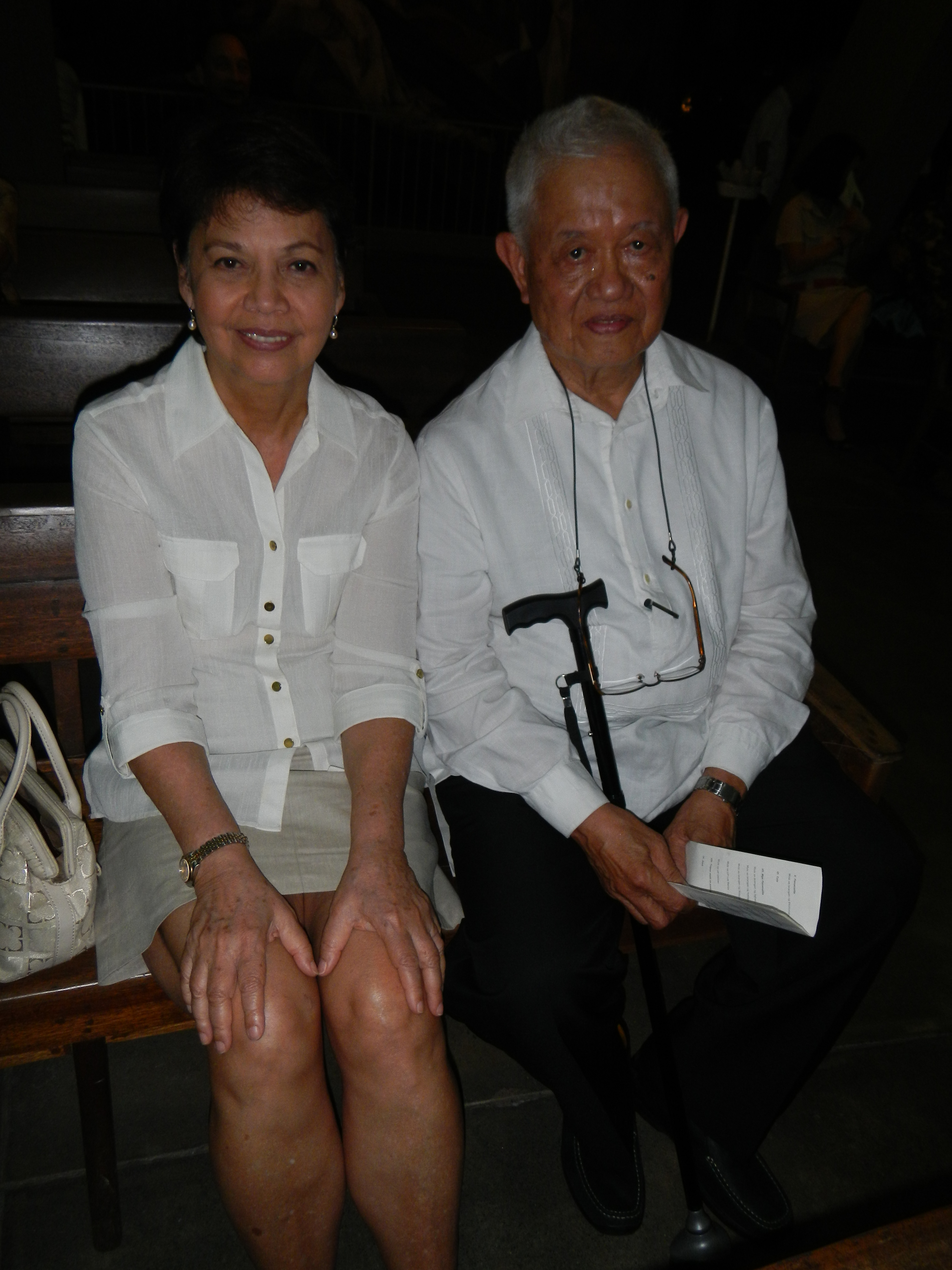 Cesar Virata and wife Phylita Joy Gamboa Virata at the Onofre Corpuz[1][2] UP necrological service (Eulogy[3])of April 1, 2013 at the Parish of the Holy Sacrifice[4], UP Diliman. [5]Cesar Enrique Aguinaldo Virata (born 12 December 1930) is a Filipino politician and businessman, who served as the fourth Prime Minister of the Philippines.[6]Virata is married to Phylita Joy Gamboa, a popular stage actress.